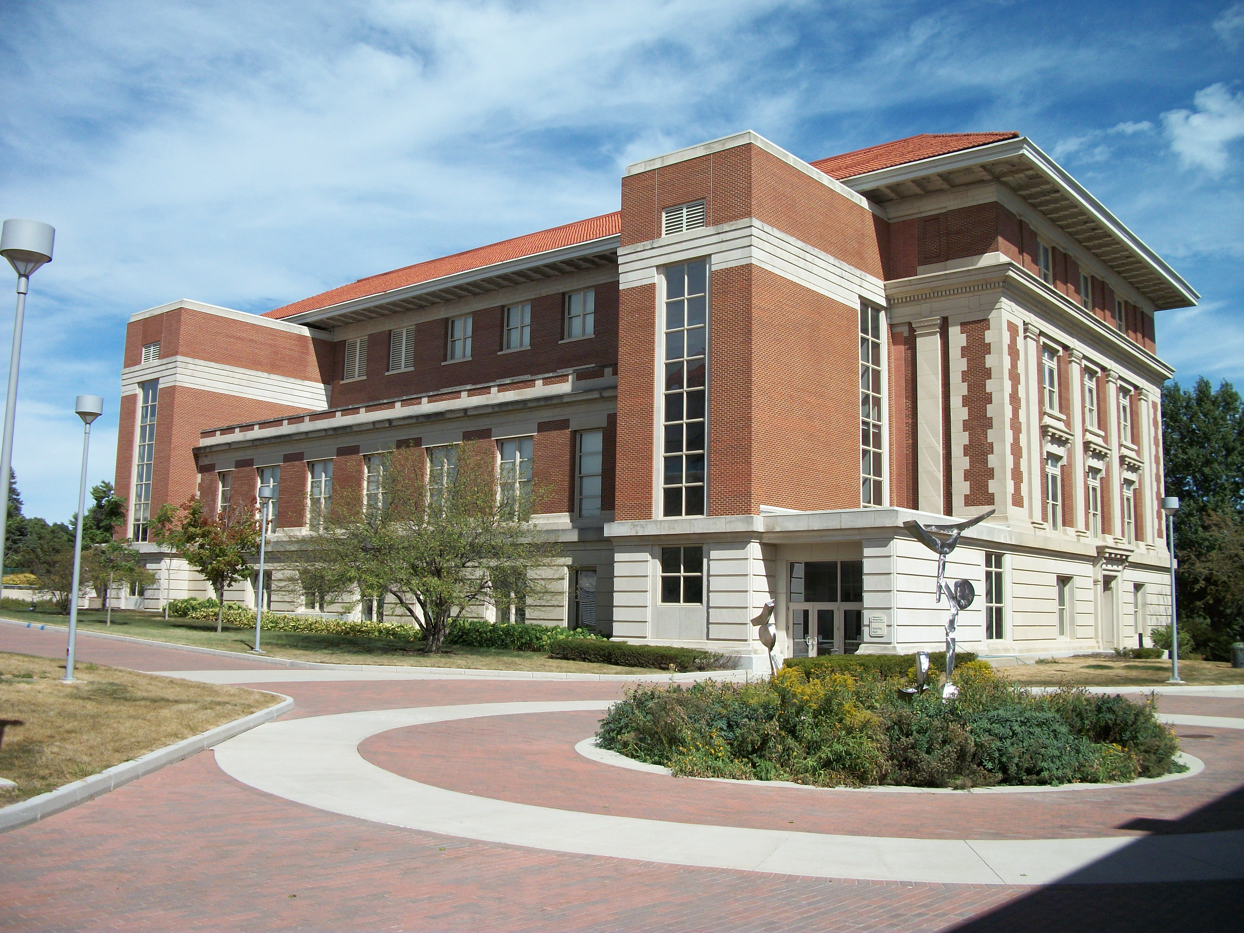 Seerley Hall at the University of Northern Iowa